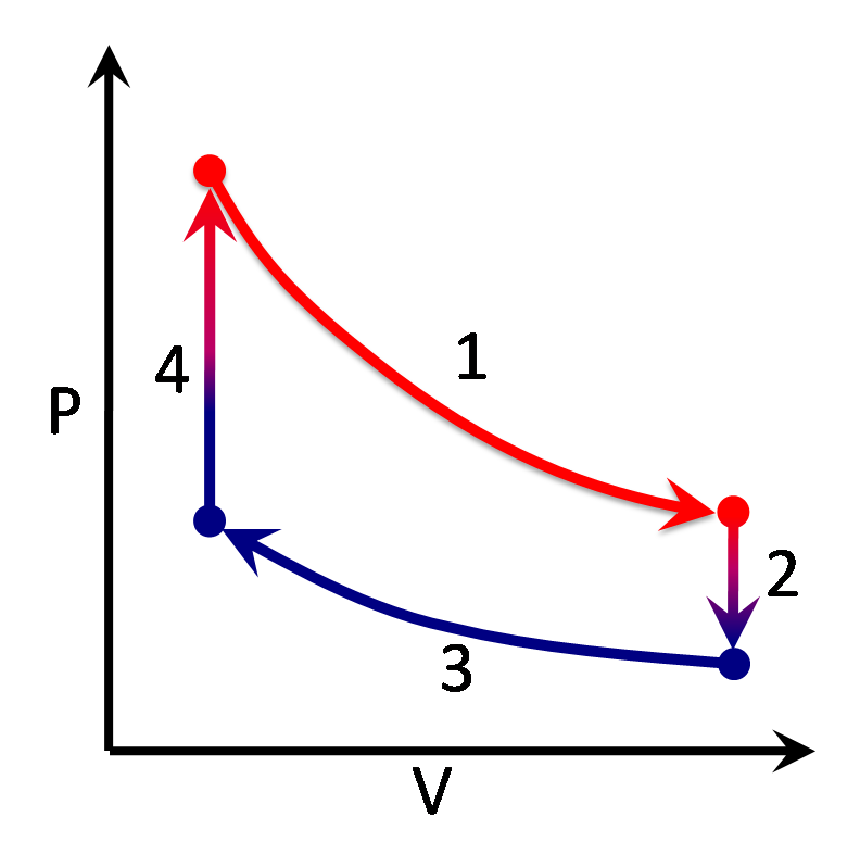 A pressure/volume graph of the idealized Stirling cycle. In real applications of the Stirling cycles (e.g. Stirling engines) this cycle is quasi-elliptical.